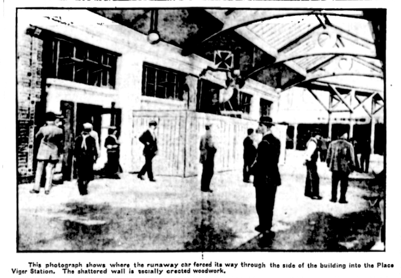 Newspaper photo showing an accident at Place Viger station in Montreal.